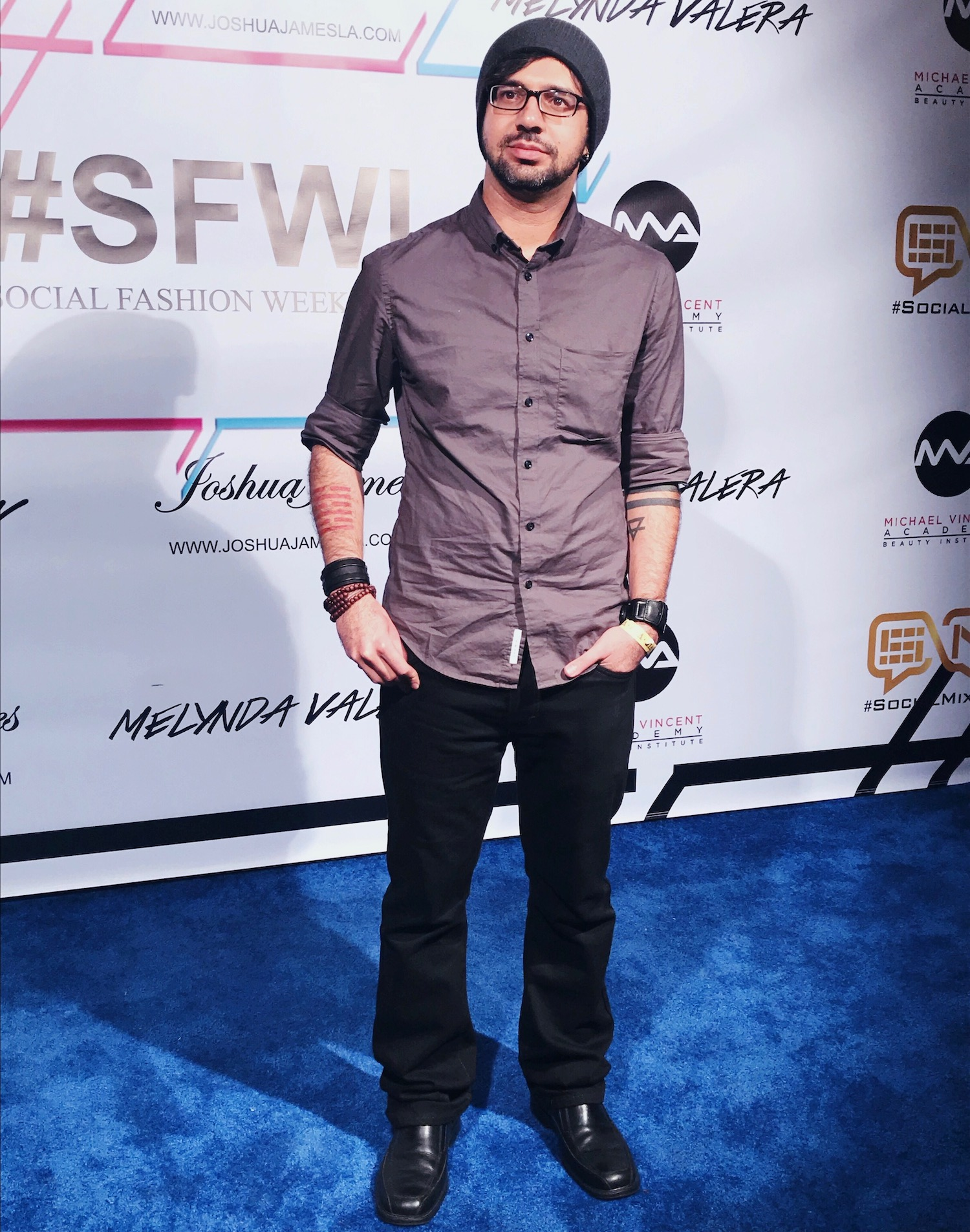 An image of writer and director Nuh Omar on the carpet from Social Fashion Week LA in Beverly Hills in 2019.